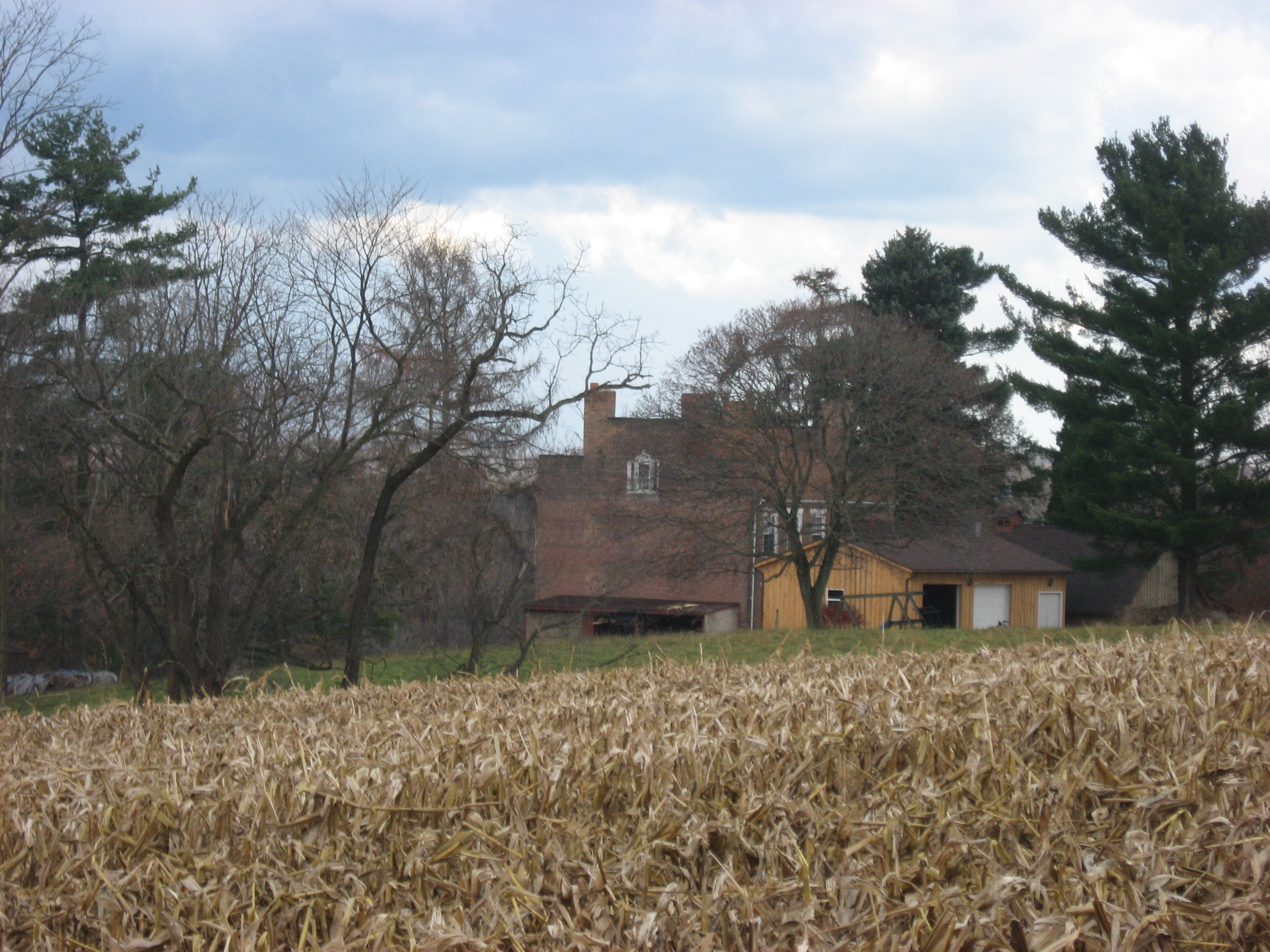 Front of Old Homestead, located off Gilmore Road northwest of Enon Valley in Little Beaver Township, Lawrence County, Pennsylvania, United States. Built in the Federal style in 1824, the house is listed on the National Register of Historic Places.